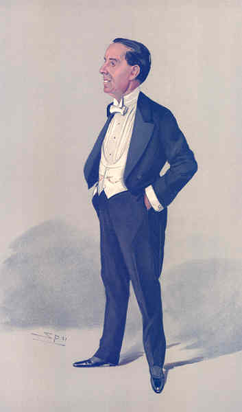 Caricature of Weedon Grossmith. Caption reads "The Duffer".